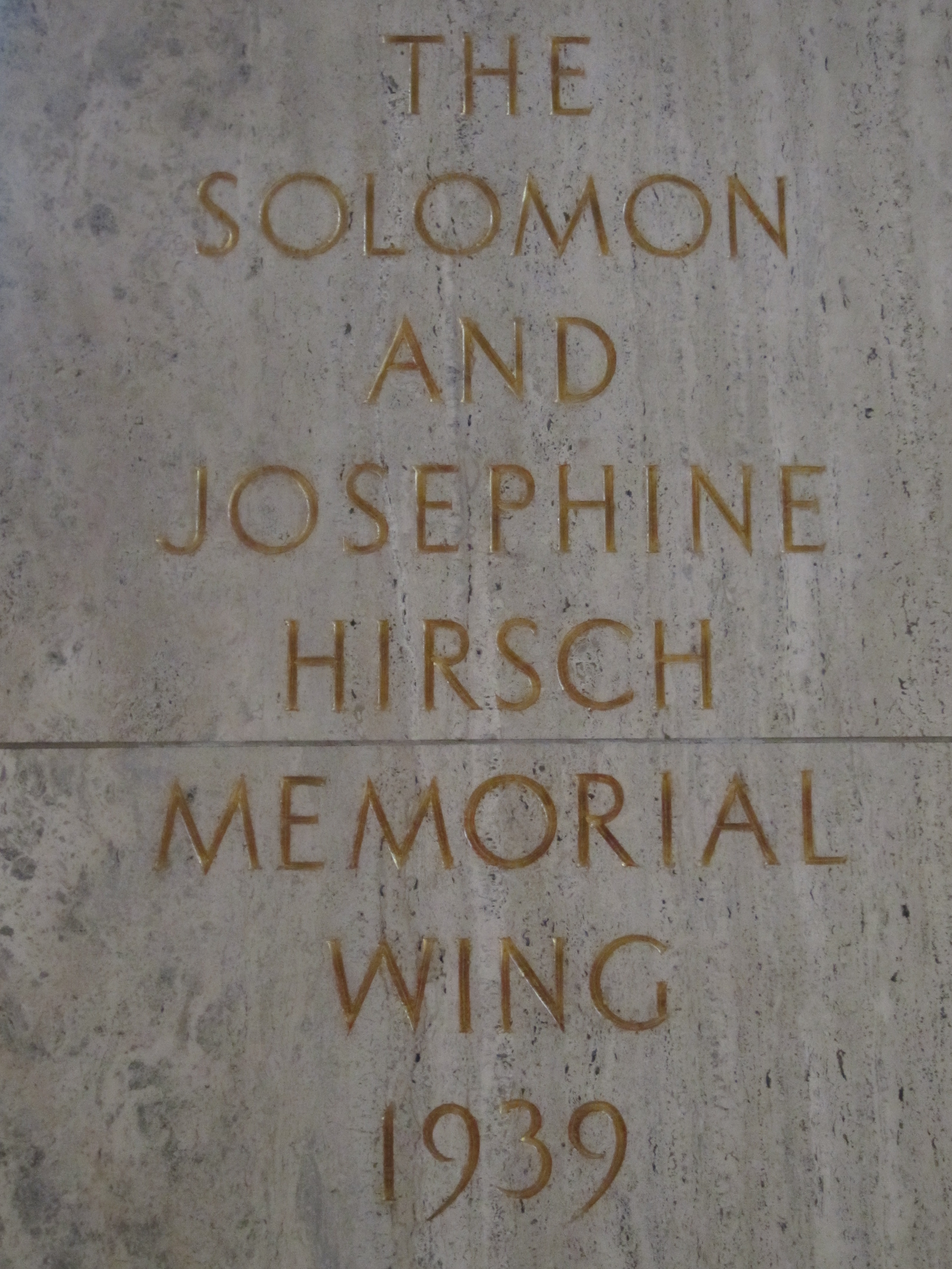 Solomon and Josephine Hirsch Memorial Wing, Portland Art Museum (2013)